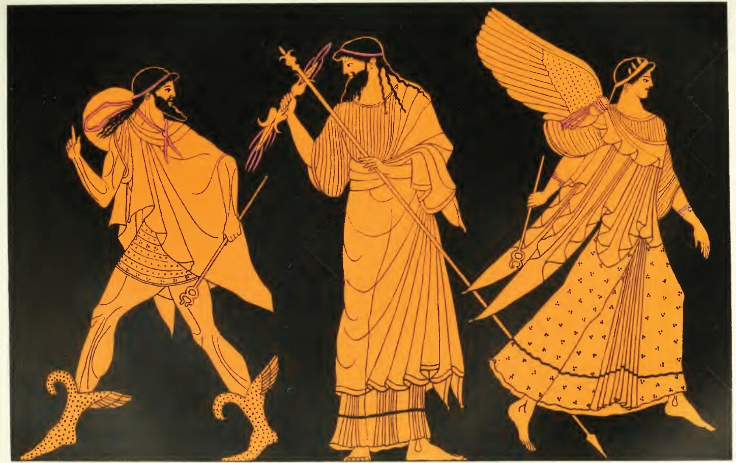 Zeus sending forth Hermes and Iris. The Louvre, Paris, France. Louvre G92.